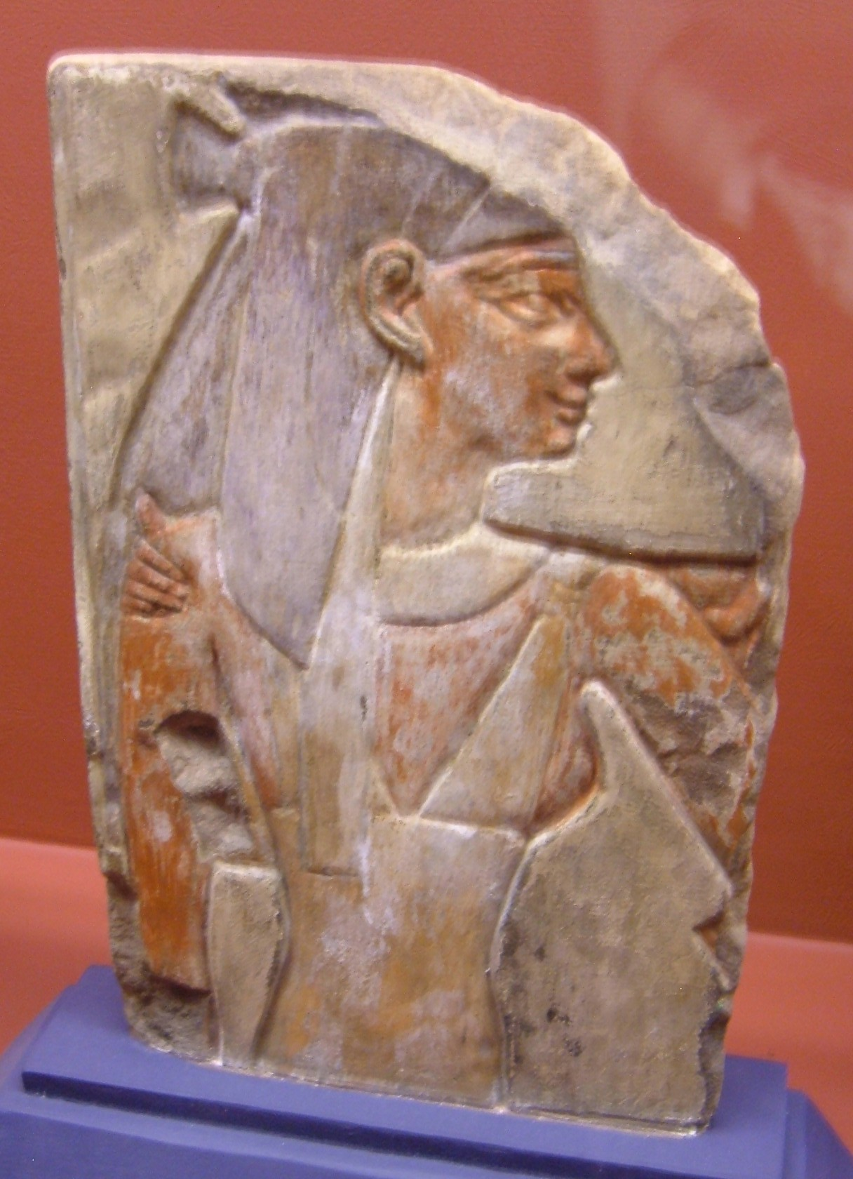 Sandstone wall relief of Mut from the Ptolemaic Period on display at the Rosicrucian Egyptian Museum in San Jose, California. RC 1967